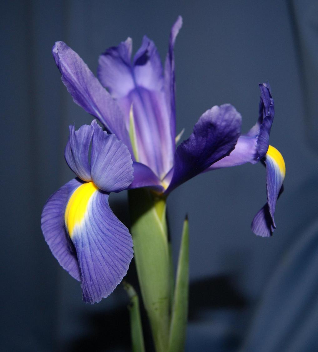 Iris x hollandica hort. inflorescence